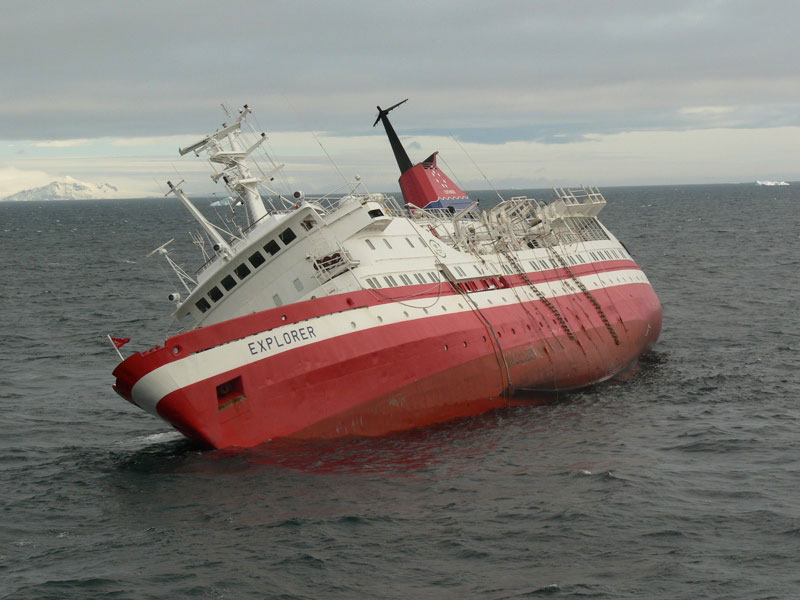 The sinking of the MS Explorer and the rescue operation of the MS Nordnorge on 2007-11-12 in the Bransfield Strait